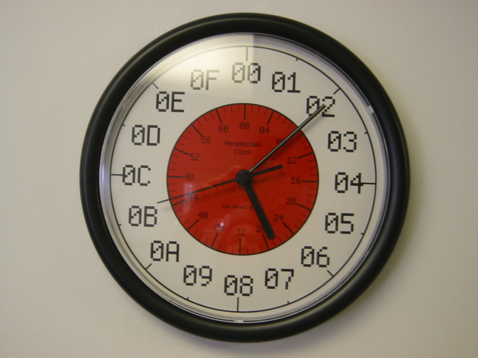 Fake hexadecimal clock The clockface parts the day in 16 units. However - the hands have nothing to do with it. This is a normal clock 7 minutes after 5.